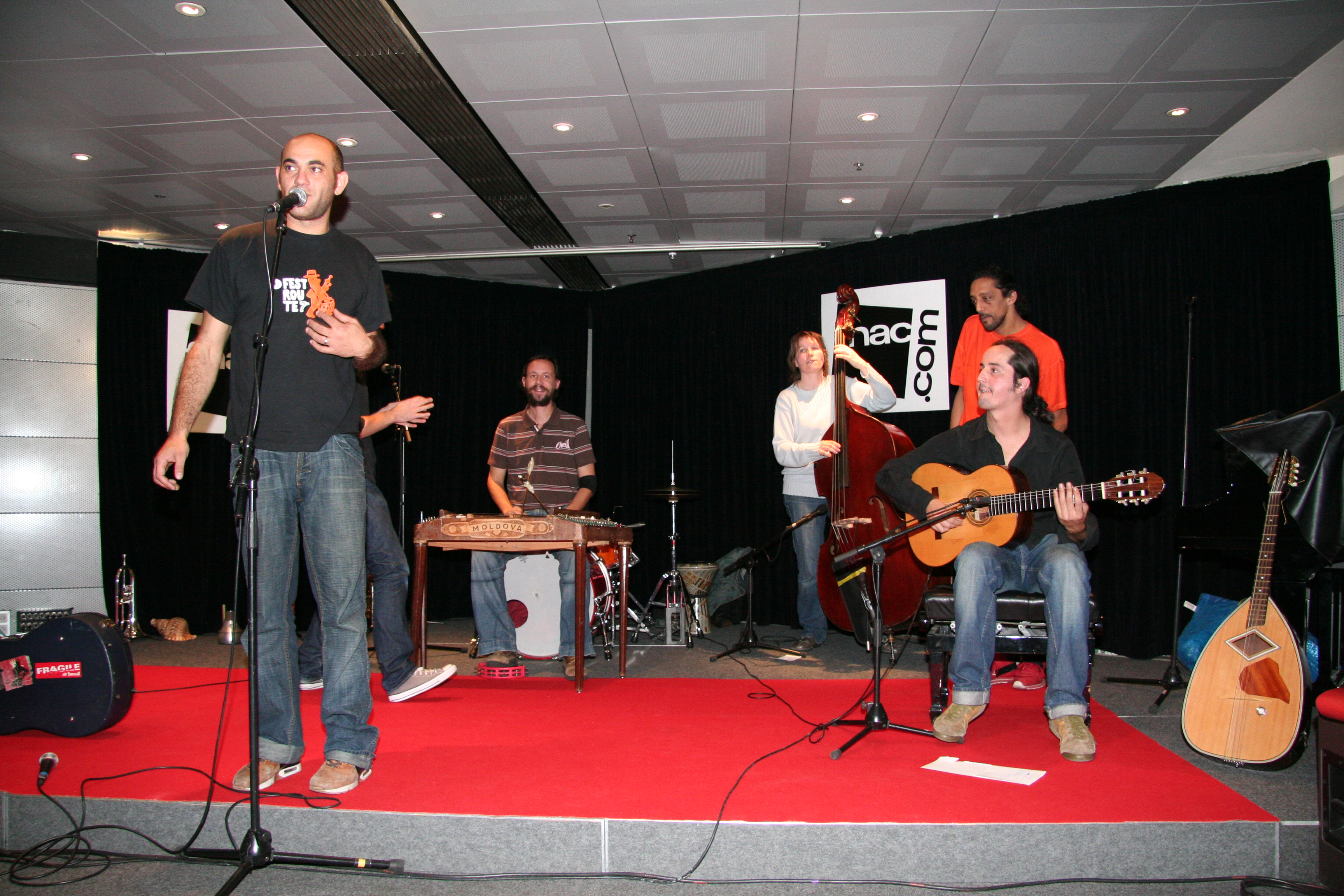 Show-case with Mon côté punk at Fnac des Ternes (Paris, France).